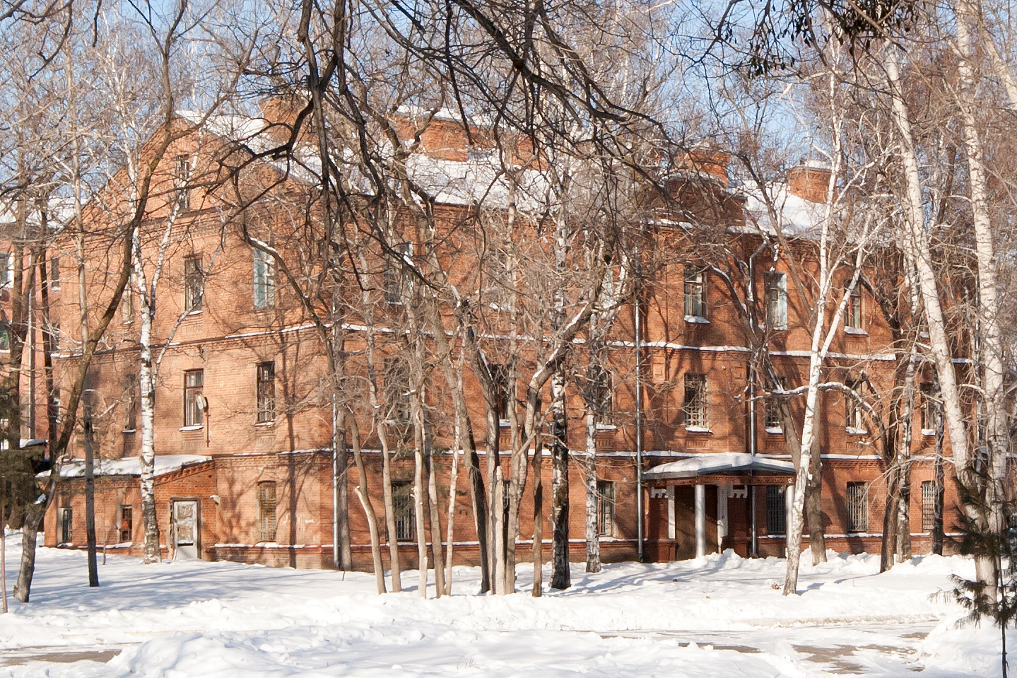 Now it is restricted area.